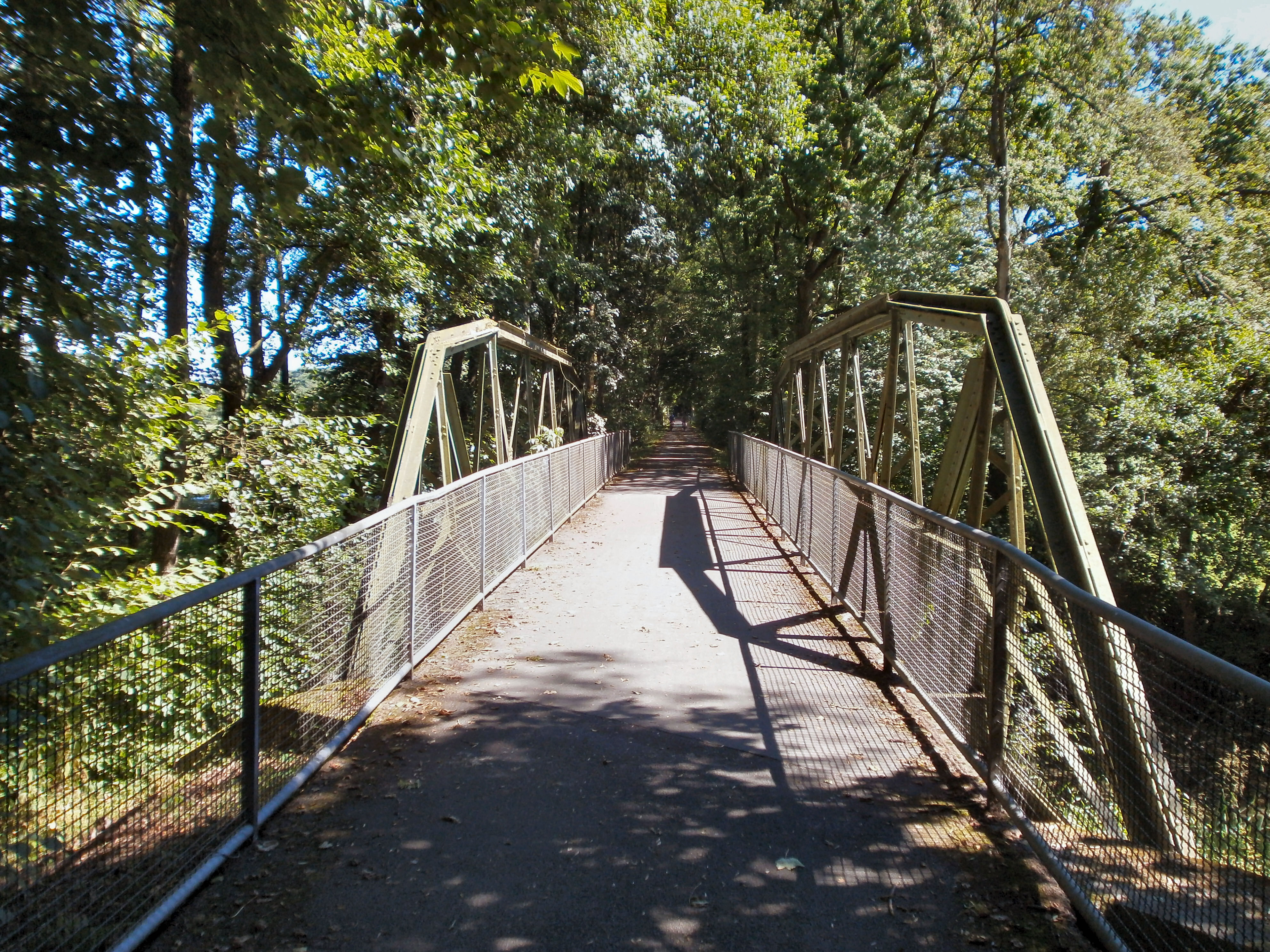 Rail Trail with pld steel bridge